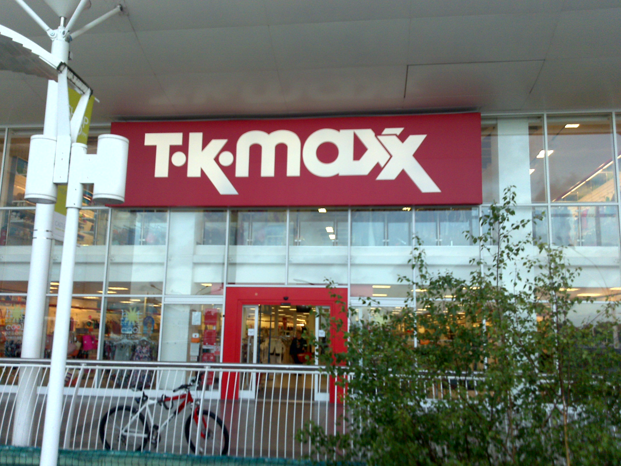 TK Maxx store at Castlepoint